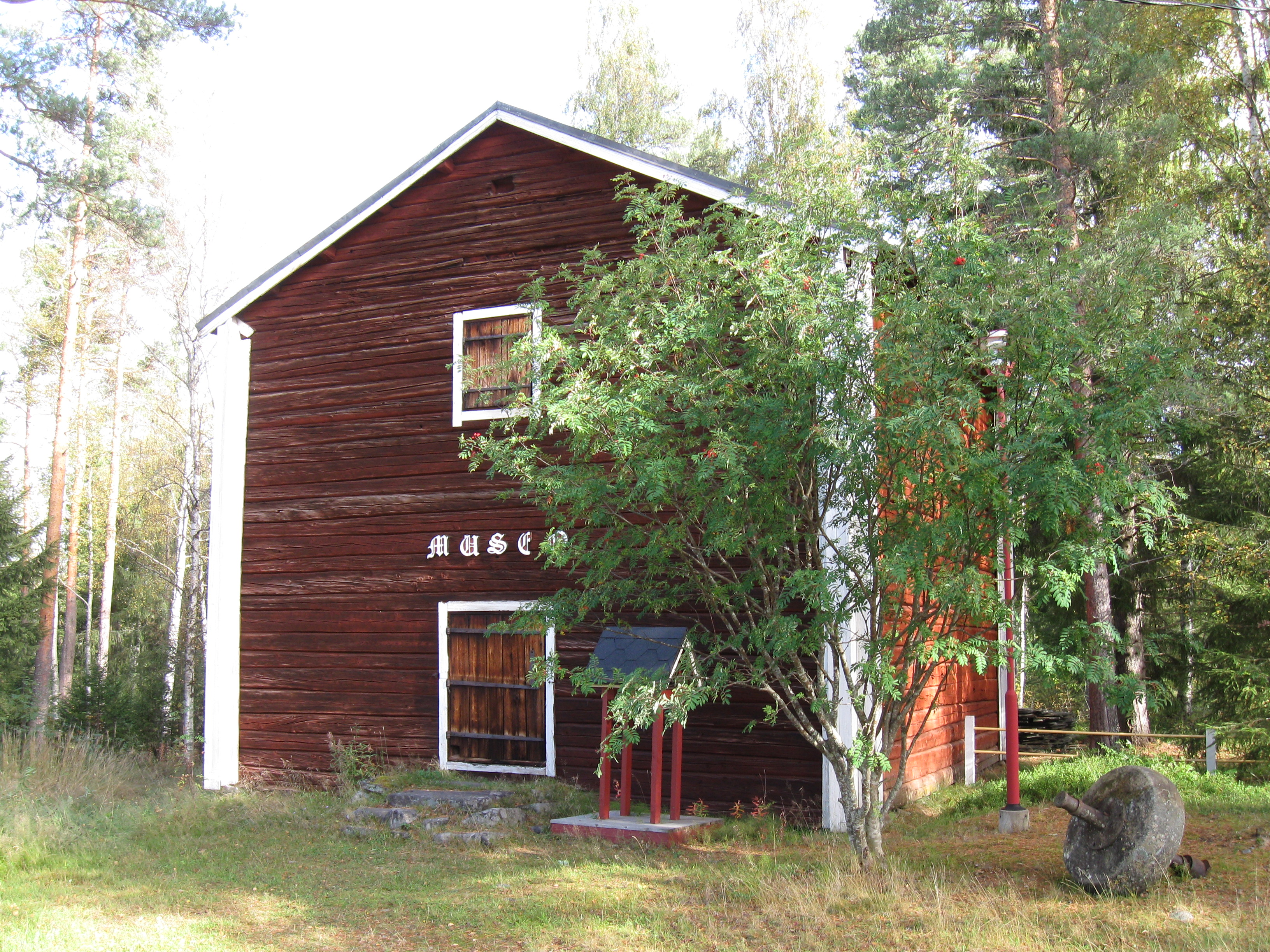 The home district museum of the municipality of Utajärvi, Finland.